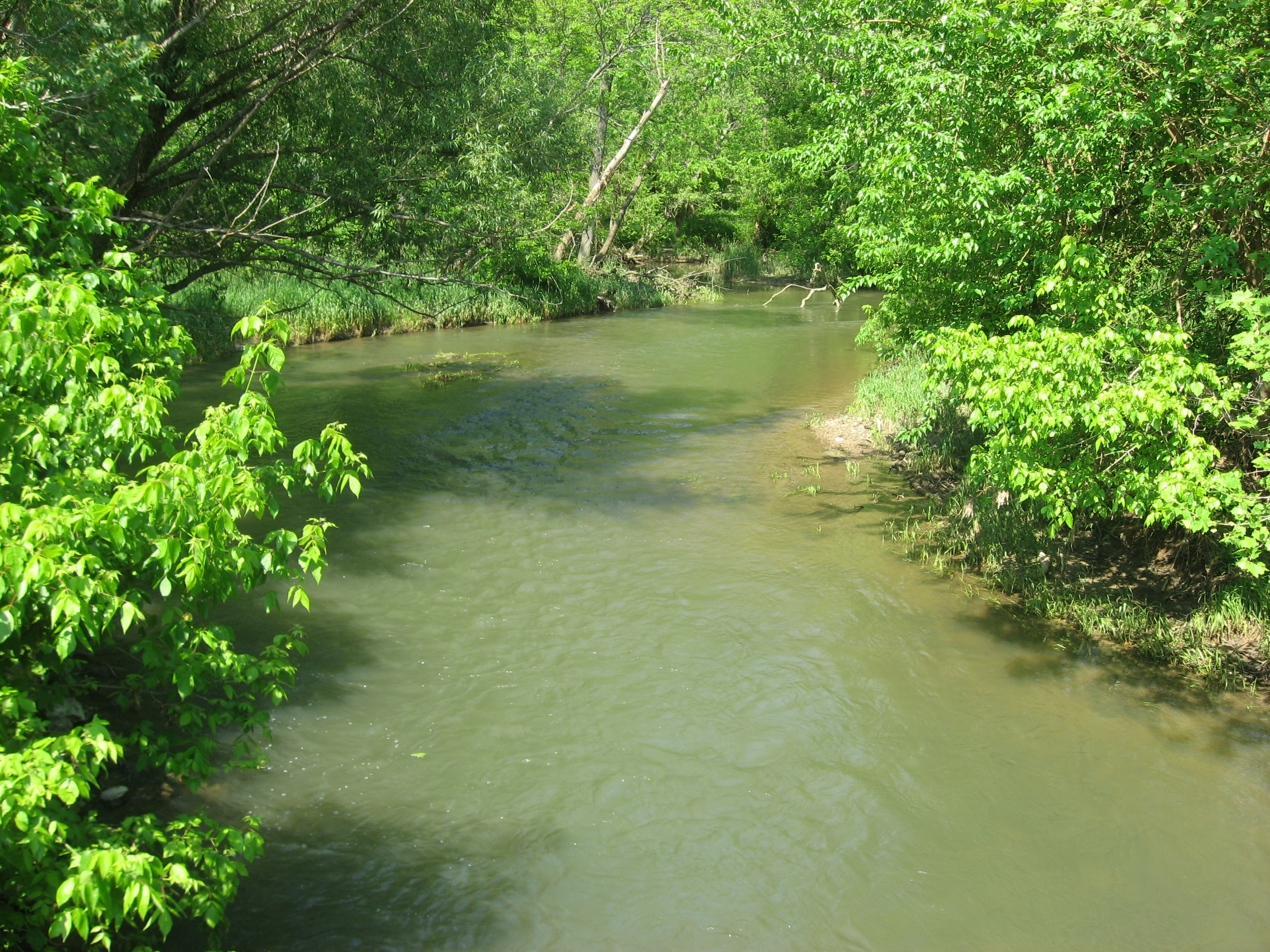 Looking upward along Massie's Creek in the Indian Mound Reserve, a park located along U.S. Route 42 west of Cedarville in Cedarville Township, Greene County, Ohio, United States.